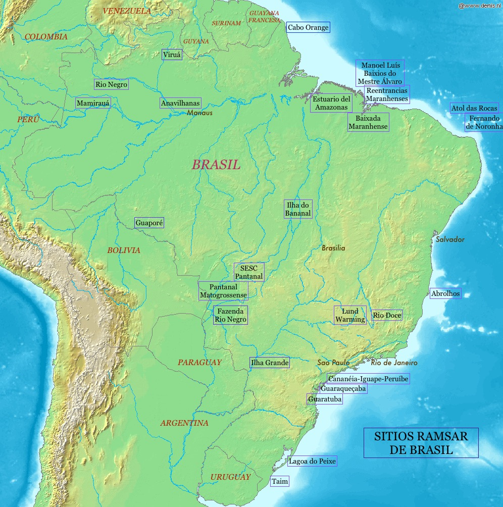 Ramsar sites in Brazil